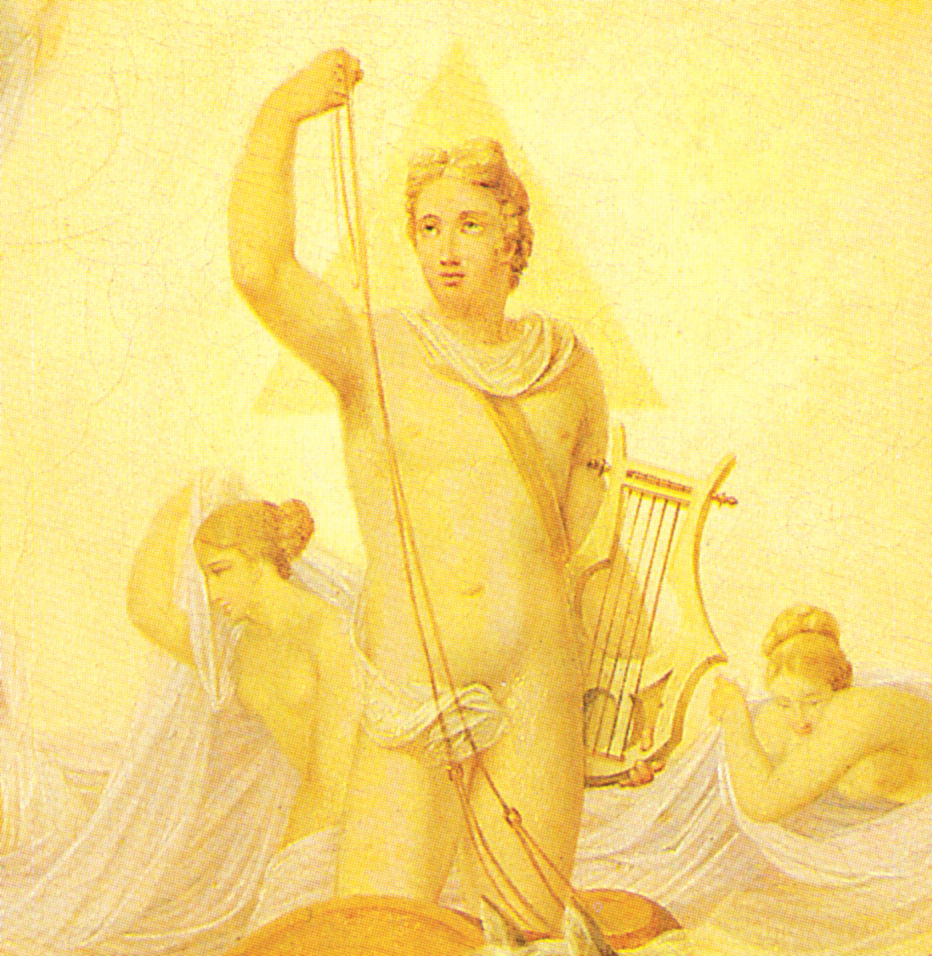 Detail from the painting Apoll mit den Stunden by Georg Friedrich Kersting (see File:Kersting - Apoll mit den Stunden.jpg). Phoibus Apoll with two horae.